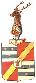 Våpen for den adelige grenen av slekten Nissen, tildelt ved adlingen 1710. Hjerteskjold med slektsvåpen.